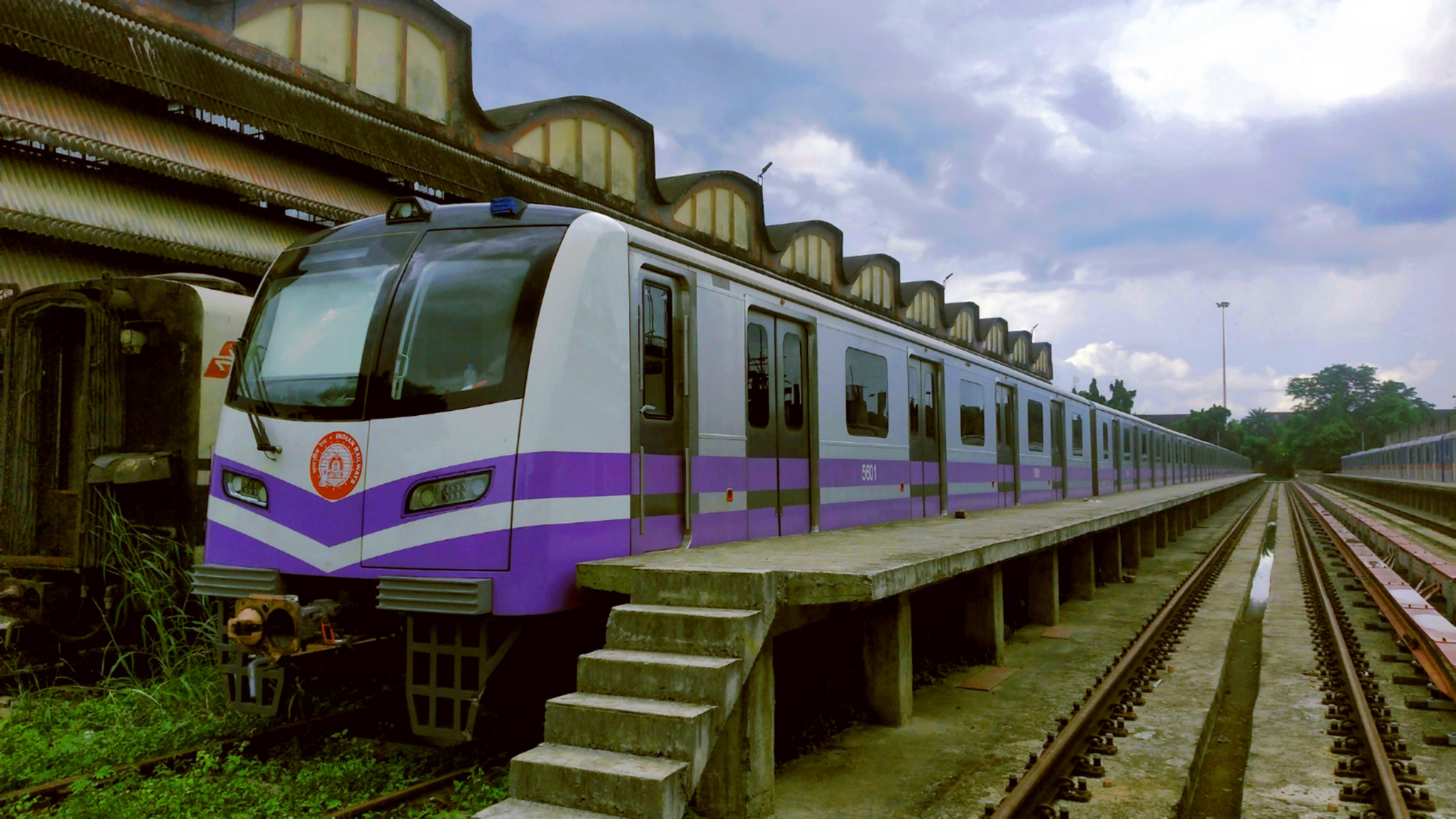 Kolkata Metro CRRC Dalian rake at Noapara depot